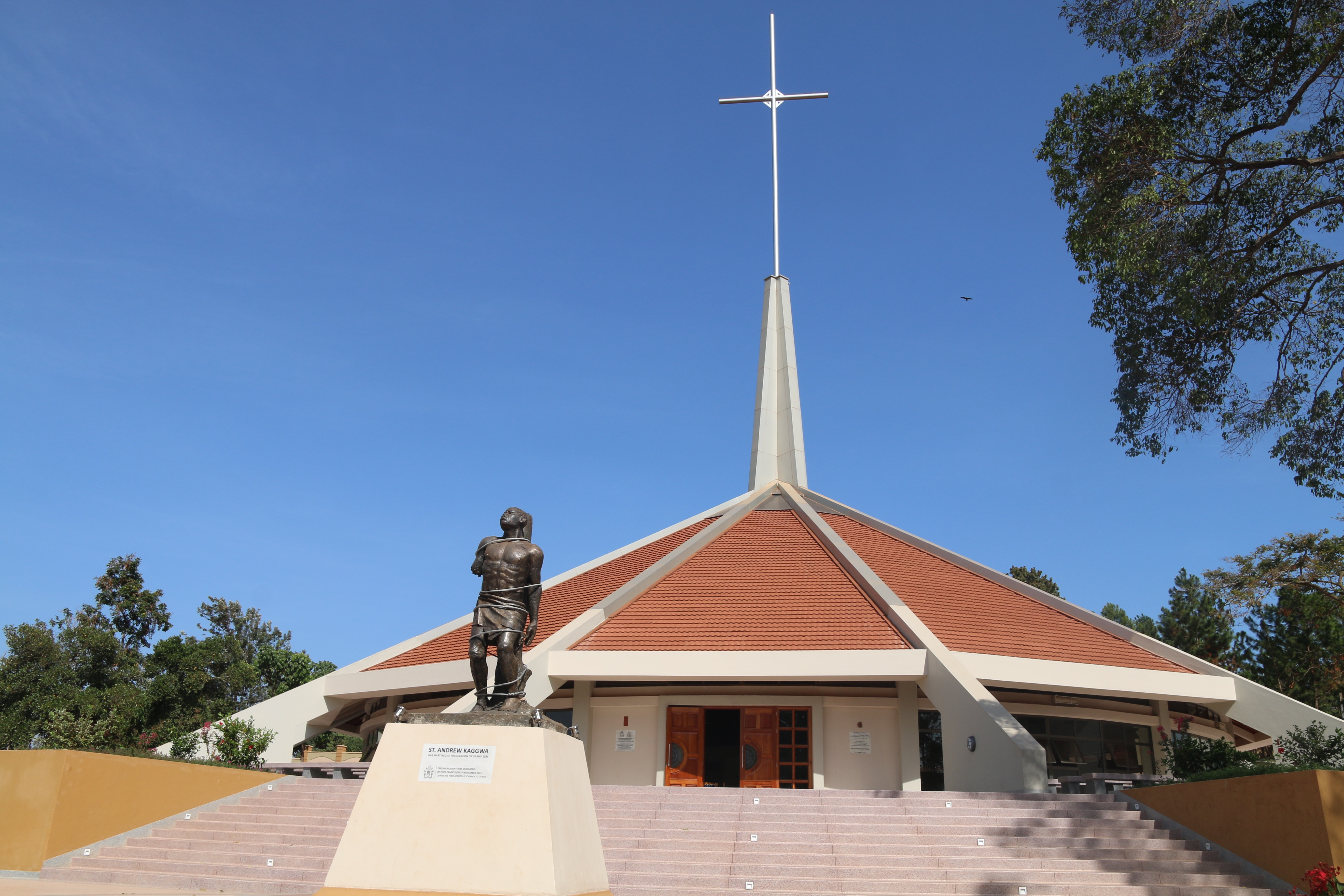 Uganda Martyrs Church in Munyonyo, Kampala built on the spot where future Uganda Martyrs were imprisoned and taken for execution in Namugongo.